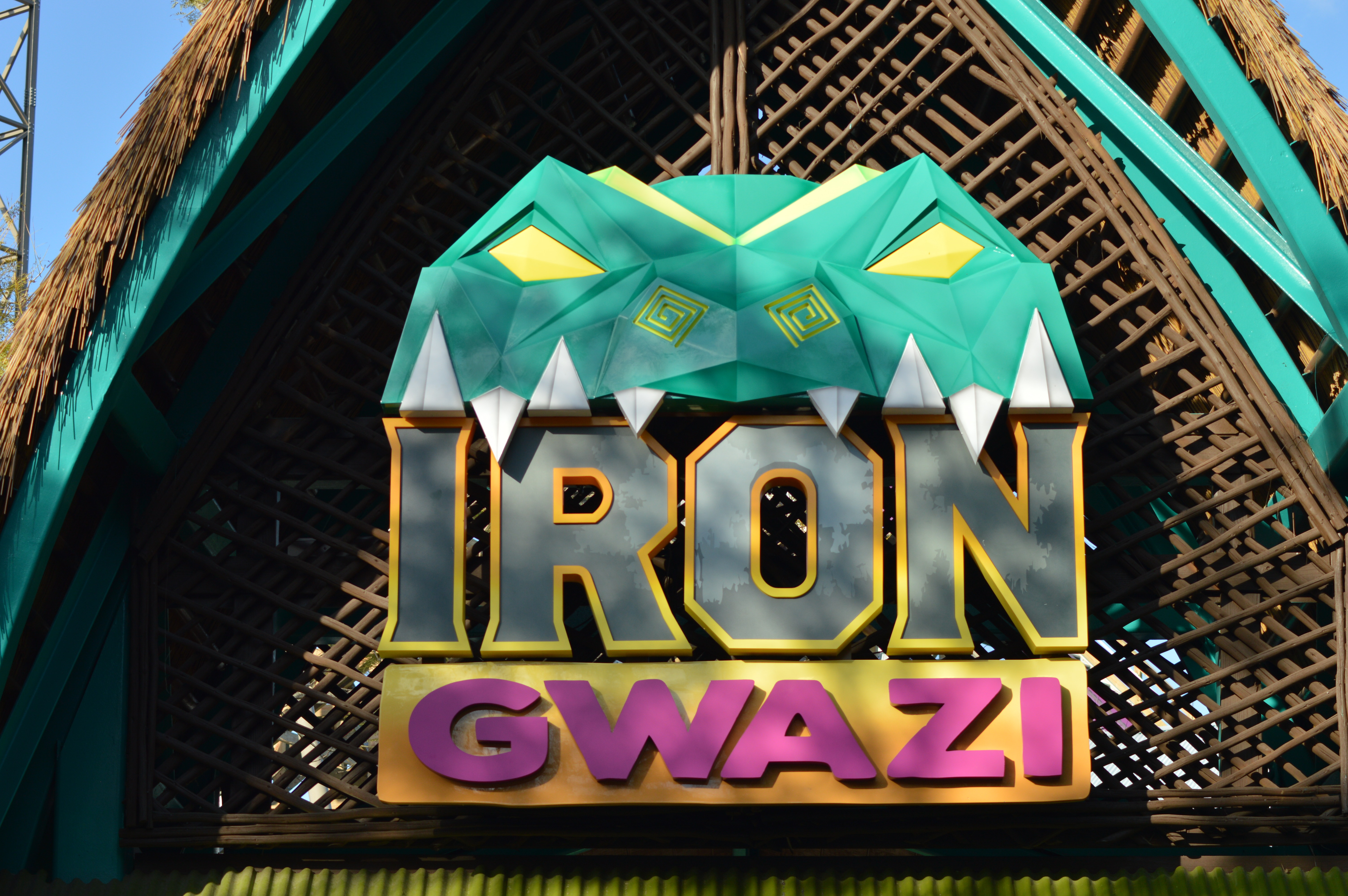 The official sign for the upcoming Iron Gwazi, set to open in Spring of 2020